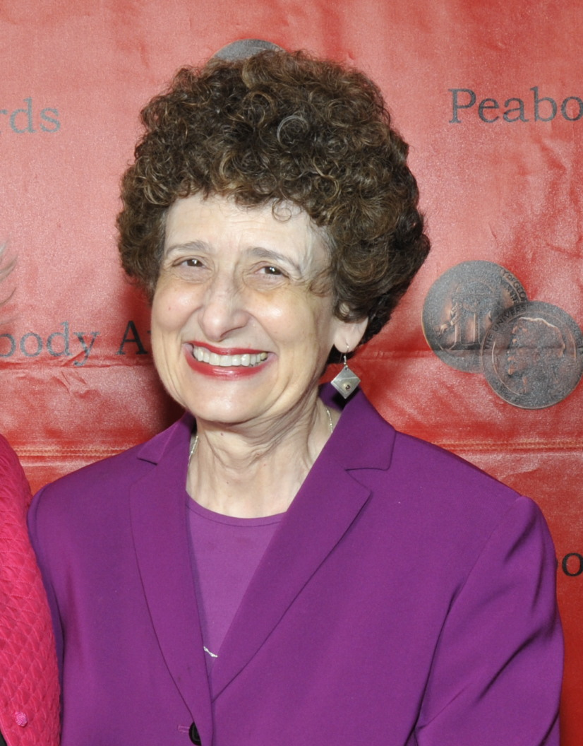 PHOTO CREDIT: ANDERS KRUSBERG / PEABODY AWARDS Rebecca Eaton 70th Annual Peabody Awards Luncheon Waldorf=Astoria Hotel May 23, 2011